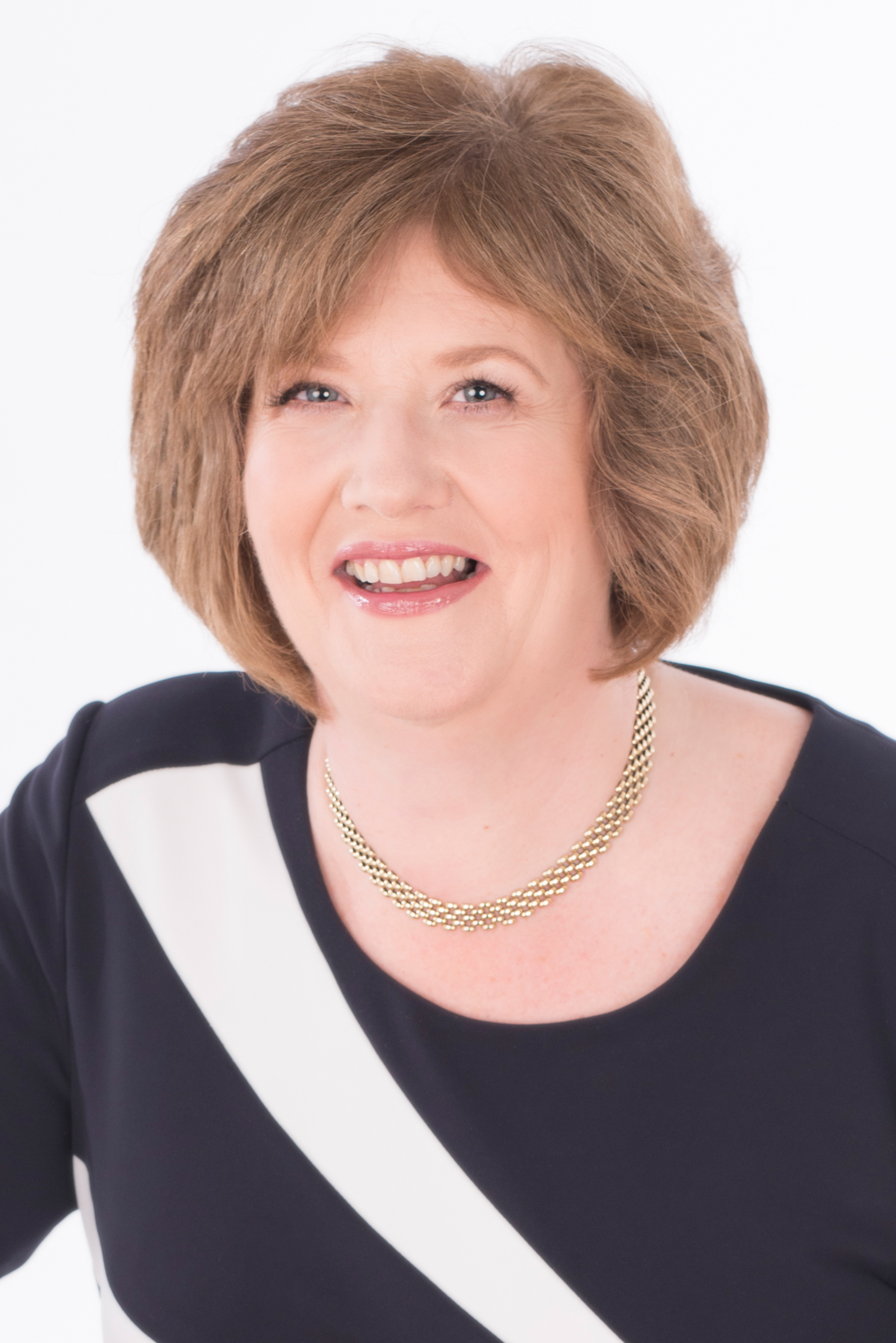 Senator Maria Byrne